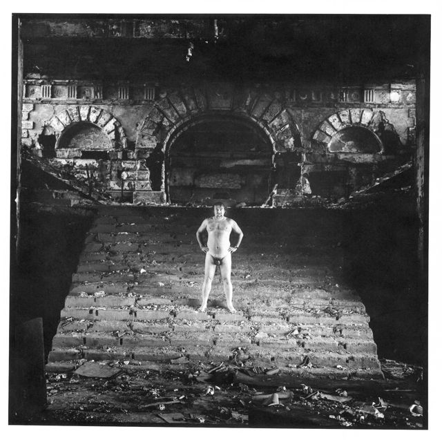 Edward Kienholz portrayed by Lothar Wolleh